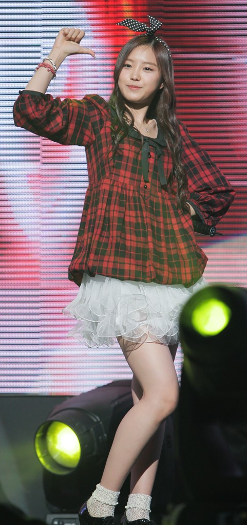 Son Naeun at the GSL Season 5 Code S Final Performance, 10 September 2011